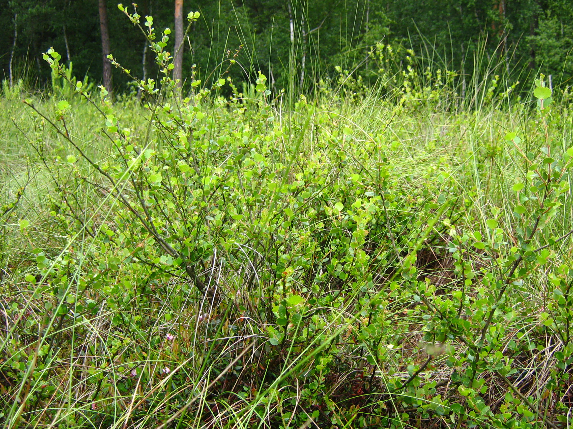 Dwarf birch (Betula nana). Linje Reserve, Poland.